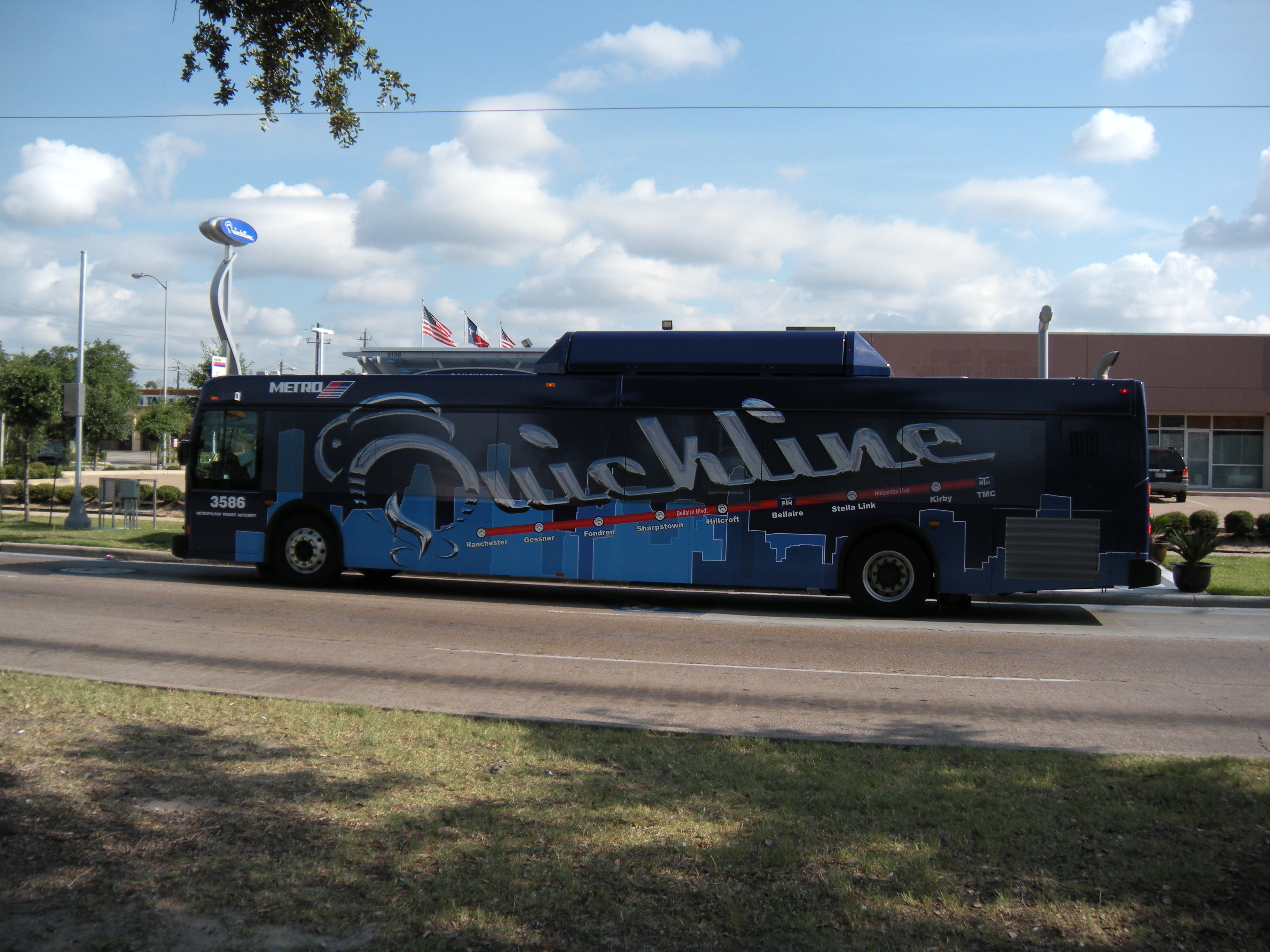 Houston METRO New Flyer DE41LFR bus 3586 drops off passengers at the last stop of the 402 - QL Bellaire route at the corner of Bellaire @ Ranchester.